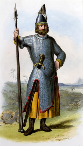 "Mac Phee". A plate illustrated by R. R. McIan, from James Logan's The Clans of the Scottish Highlands, published in 1845.